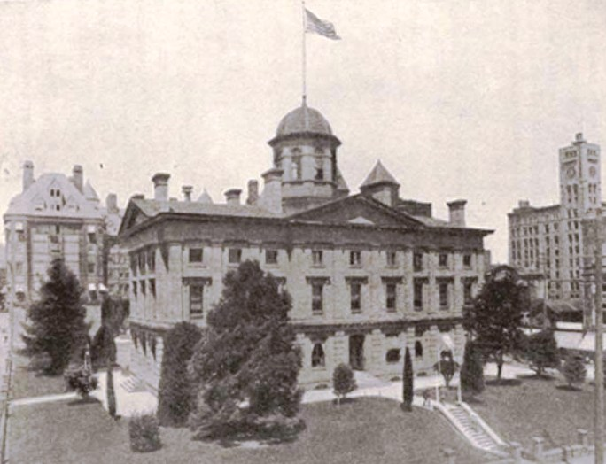 Pioneer Courthouse in Portland, Oregon, USA